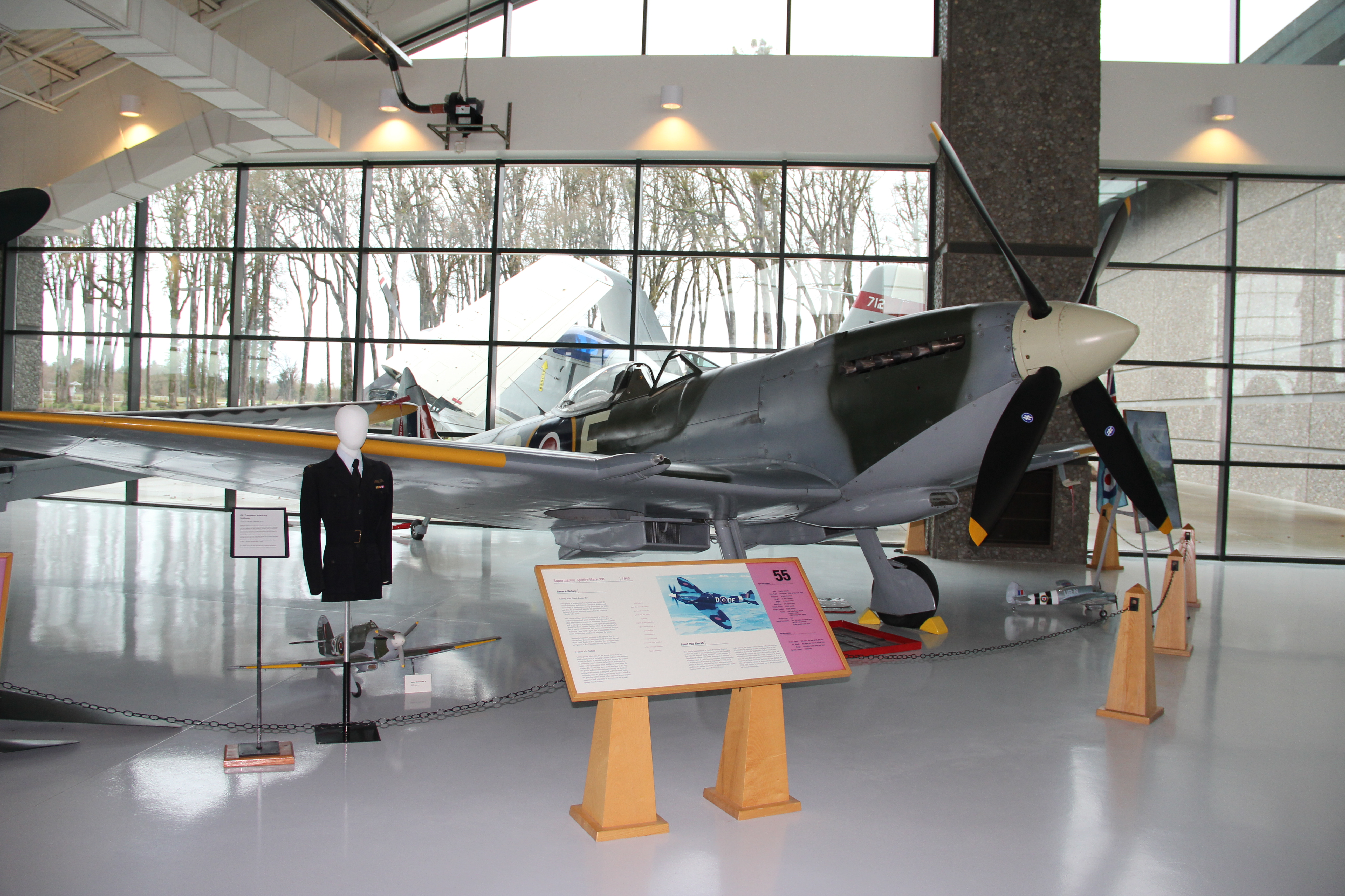 Supermarine Spitfire at the Evergreen Aviation & Space Museum